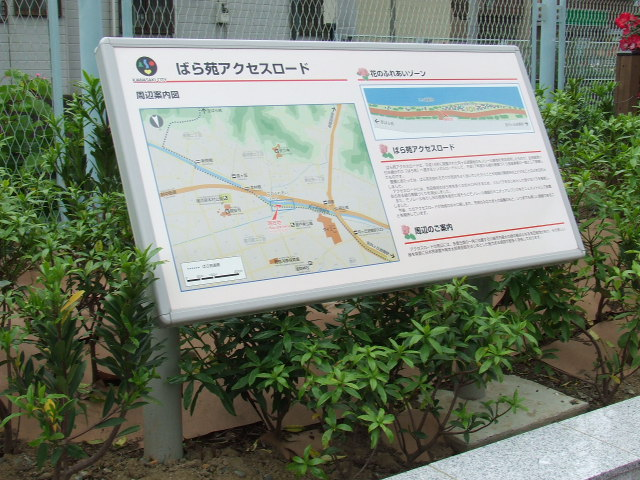 Plate of Mukogaoka-Yuen Monorail（Abolished）, Odakyu Electric Railway, Japan